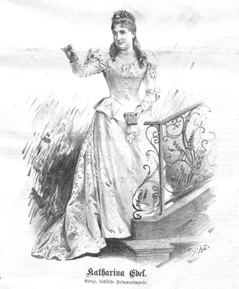 Portrait of Katharina Fleischer-Edel (1873-1928), German opera singer.